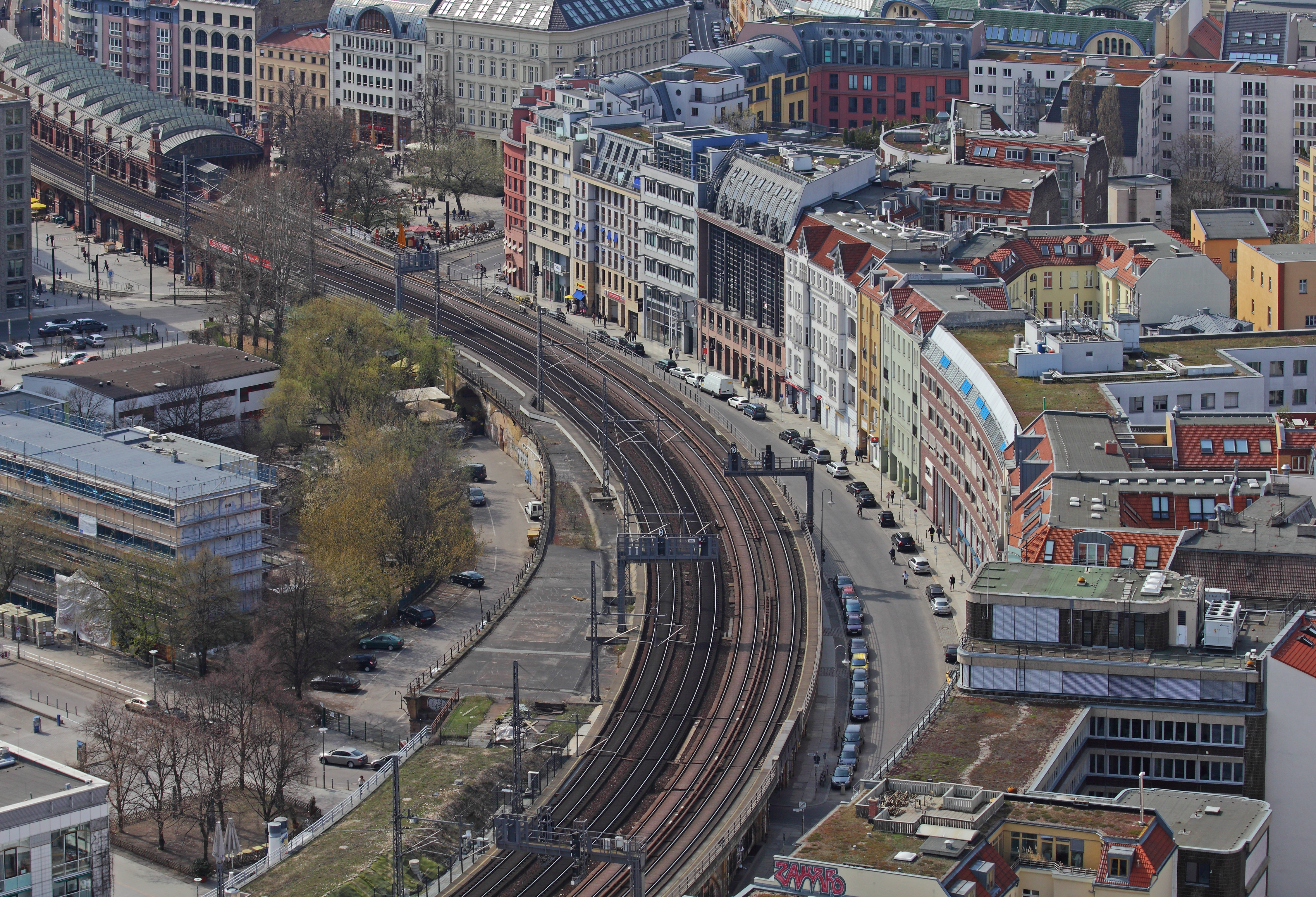 View of Berlin from the viewing point of Park Inn, Alexanderplatz.